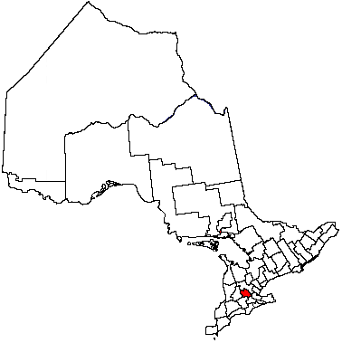 Waterloo Region, Ontario